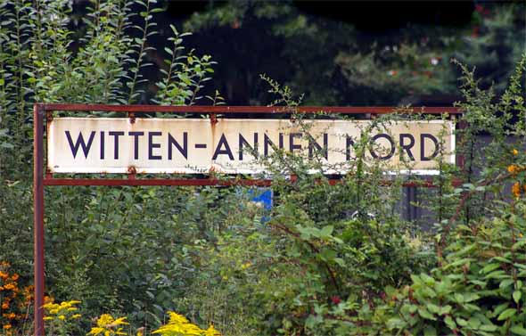 Sign of the railway-station Witten-Annen-Nord